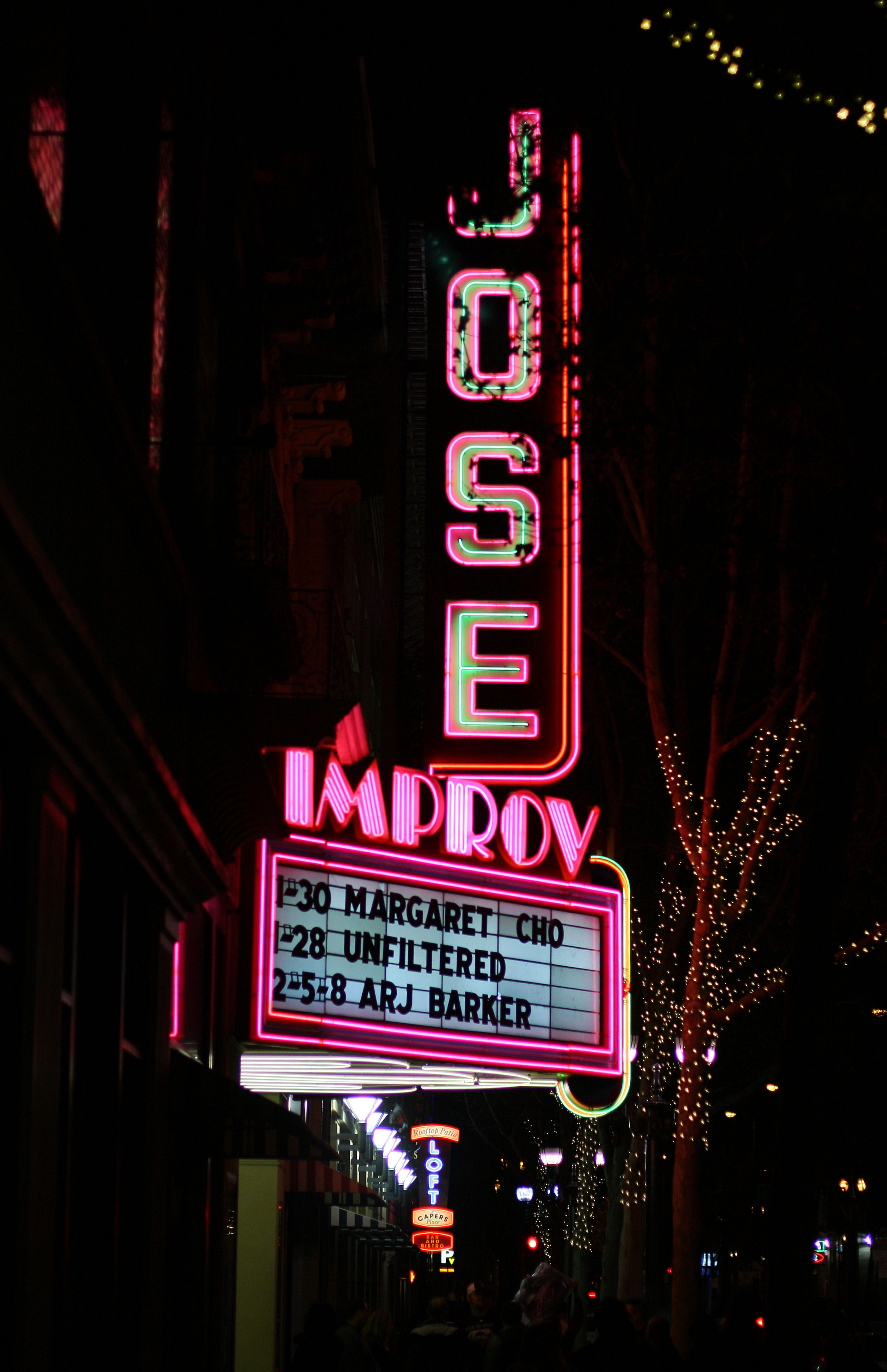 The Improv San Jose - No better place to see 1st rate comedy!!!! And it's a beautiful theater!